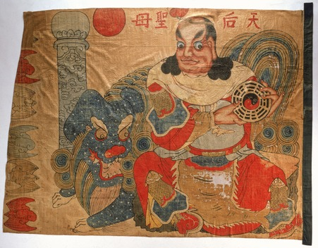 Reputedly the flag of the Chinese pirate Shap-ng-tsai. The characters say 'T'ien Hou Sheng Mu' (Empress of Heaven, Holy mother). T'ien Hou was regarded as a calmer of storms and protectoress of marine commerce, fishermen and sailors. The flag is painted with a depiction of Zhang Daoling (34-156 AD), founder of Daoism as a religion in China. He is seated on a rock holding an Eight Trigram (a symbol of Daoism) with a tiger or qilin behind him. A border of bats runs down the fly edge (a symbol of good luck). The hoist is placed on the right hand side of flag.